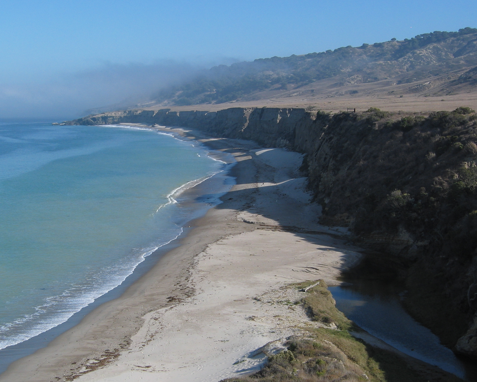 Water Canyon beach with endemic Torrey pines (Pinus torreyana var. insularis) on hills, and cliffs with Coastal sage scrub habitat, on Santa Rosa Island. Located in the Coastal sage and chaparral sub-ecoregion, within Channel Islands National Park, Southern California. Original Description: The cool, fog drenched slopes above Water Canyon beach provide perfect habitat for the Torrey pines.